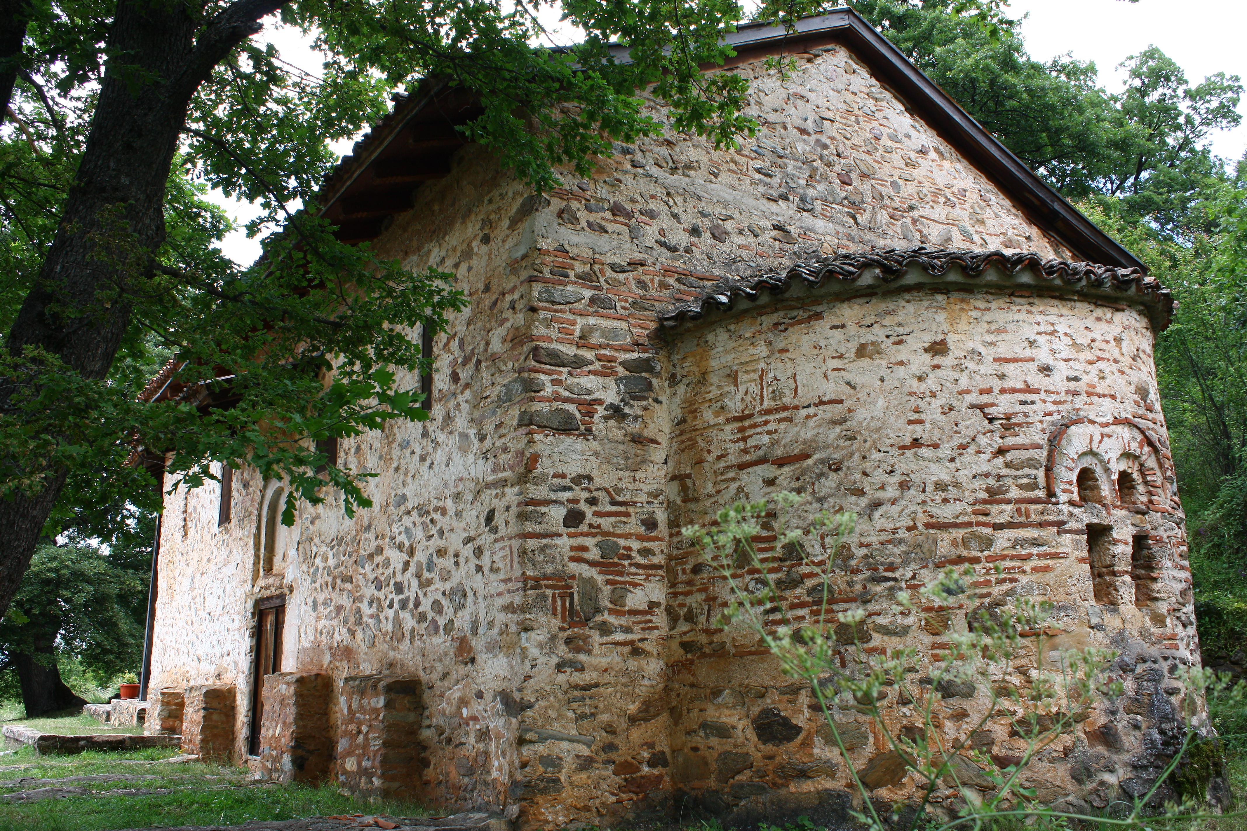 St.George Church in Kurbinovo, Macedonia